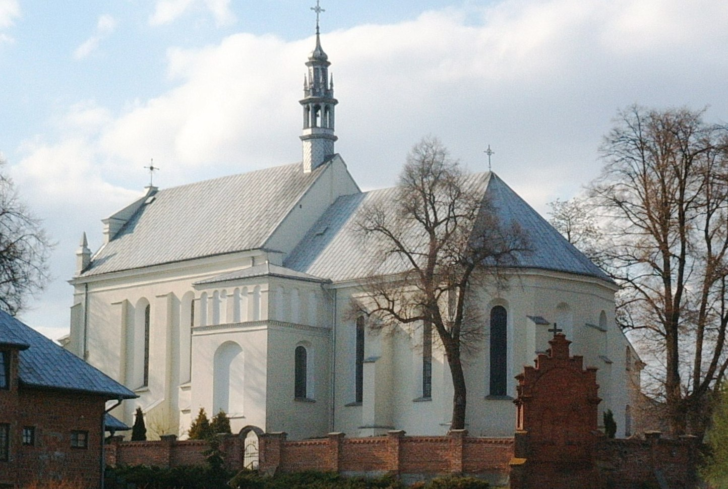 Church in Warka